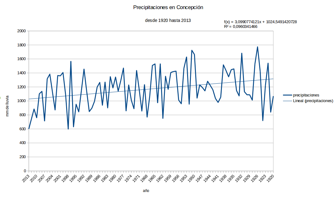 Rainfall in Concepción (Biobio, Chile) It shows a clear decline in the intensity of rainfall, as well as confirms the trend line (with their respective equations to top right); as well as the respective variations of the phenomena of the Child. X-axis: years, y-axis: millimeters of rain fallen. Data taken from the annual weather reports Meteorological Direction of Chile; Carriel Sur data are taken into account, since its inauguration in 1979 saved an estimated data (missing the month of December), 1964 (November), 1958 (December); and data Hualpencillo 1967, 1963; University of Conception between 1961 and 1959; Punta Hualpén in 1941.